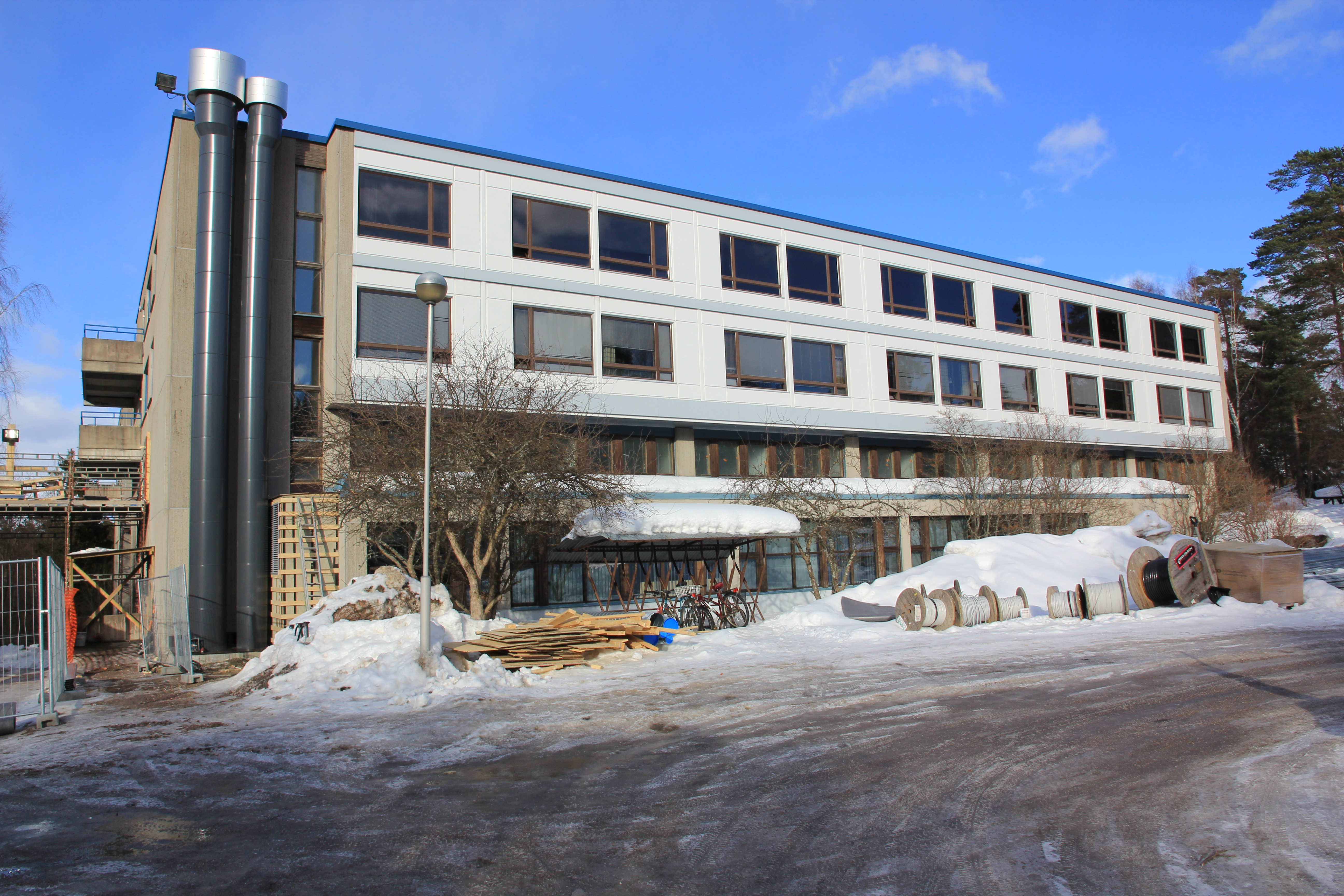 Kauniala war invalid hospital, modern section A-wing.